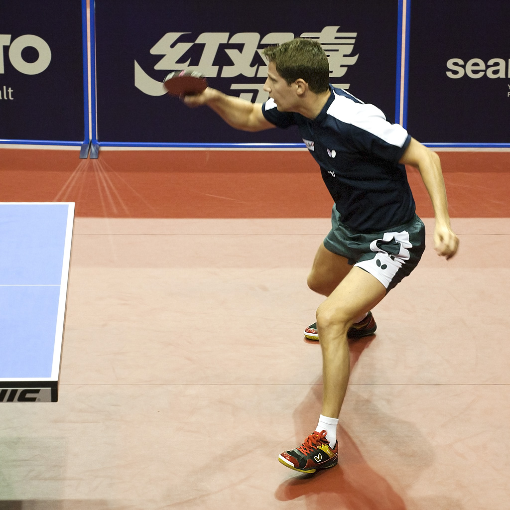 ITTF World Tour 2017 German Open, Magdeburg, Germany, 7 Nov 2017 - 12 Nov 2017, Robert Gardos